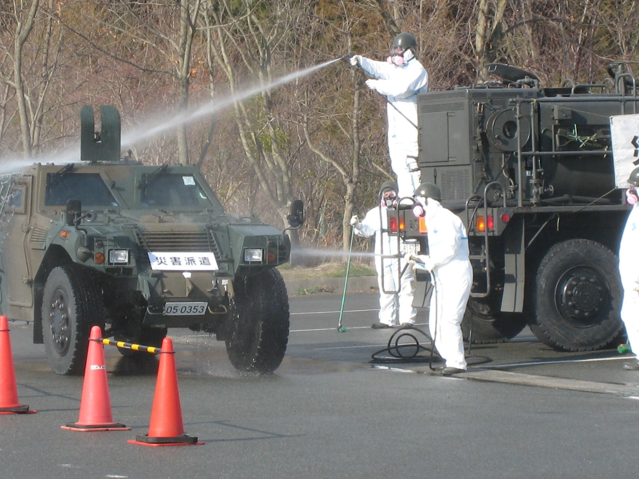 Title 23.3.31 ＣＲＦ：情報収集後の装甲車の除染（ＪＶ）.JPG Album 東日本大震災における災害派遣活動 装甲車の除染